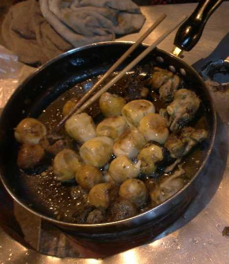 Shelled and fried balut (Wangjidan) sold in Nanjing. 中文（中国大陆）: 南京路边剥壳油煎的旺鸡蛋。